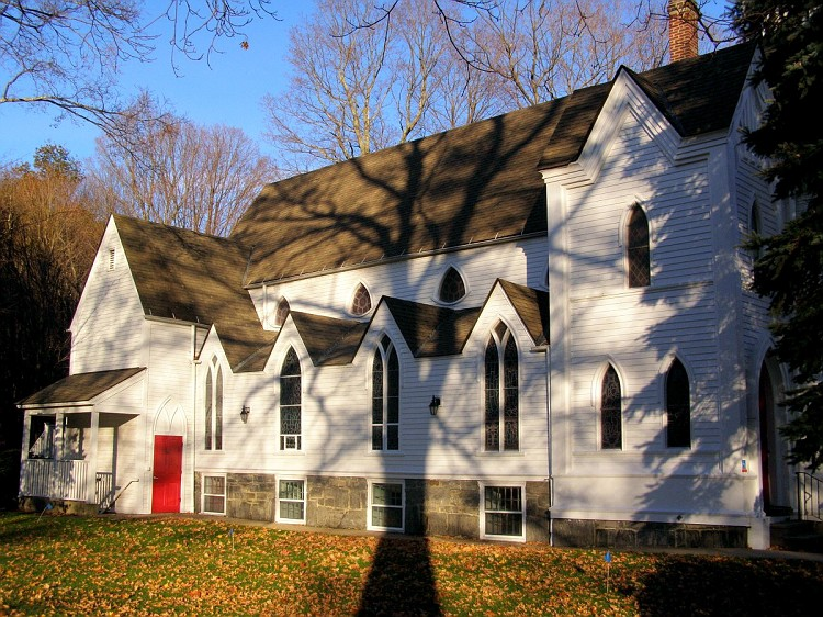 St. John's Church, in the Pine Meadows village of New Hartford, Connecticut.